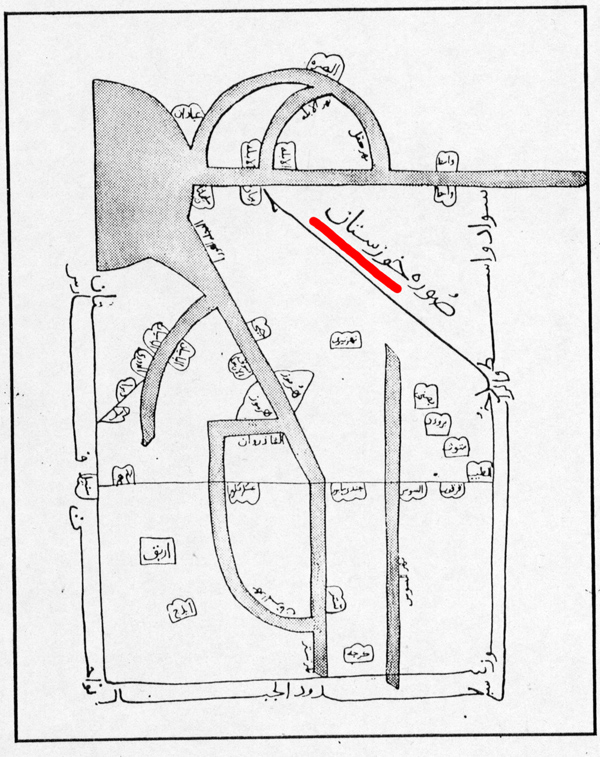 Regional Map of Khuzestan, by Ibn Hawqal, 10th century. Map was extracted from The M.J. De Goeje's copy of Ibn Hawqal's book "Surat ul-Ardh", from the Library of Iran's National Museum.